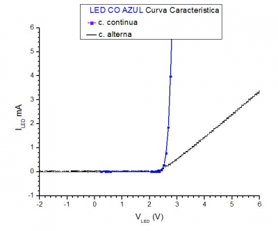 Proyecto de Innovación Docente 2013 de la ETSI de Telecomunicación UPM; coordinador P. Mareca, subido por Sonsoles Lopez